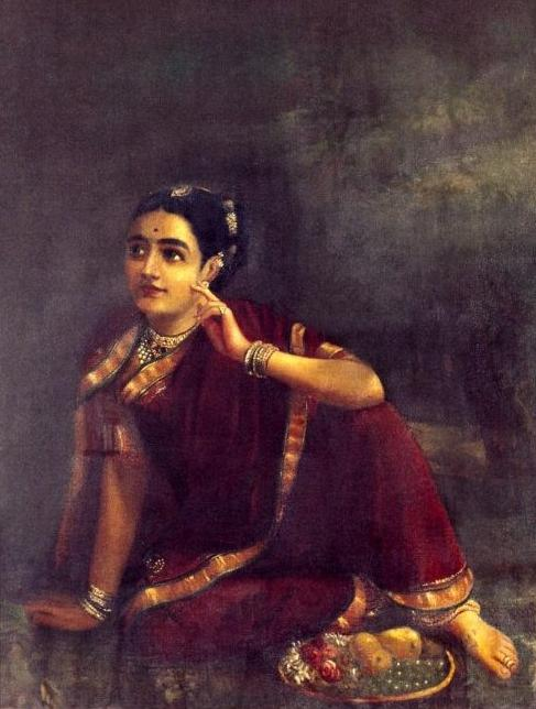 Radha, lover of Sri Krishna waiting eagerly for Him in the garden